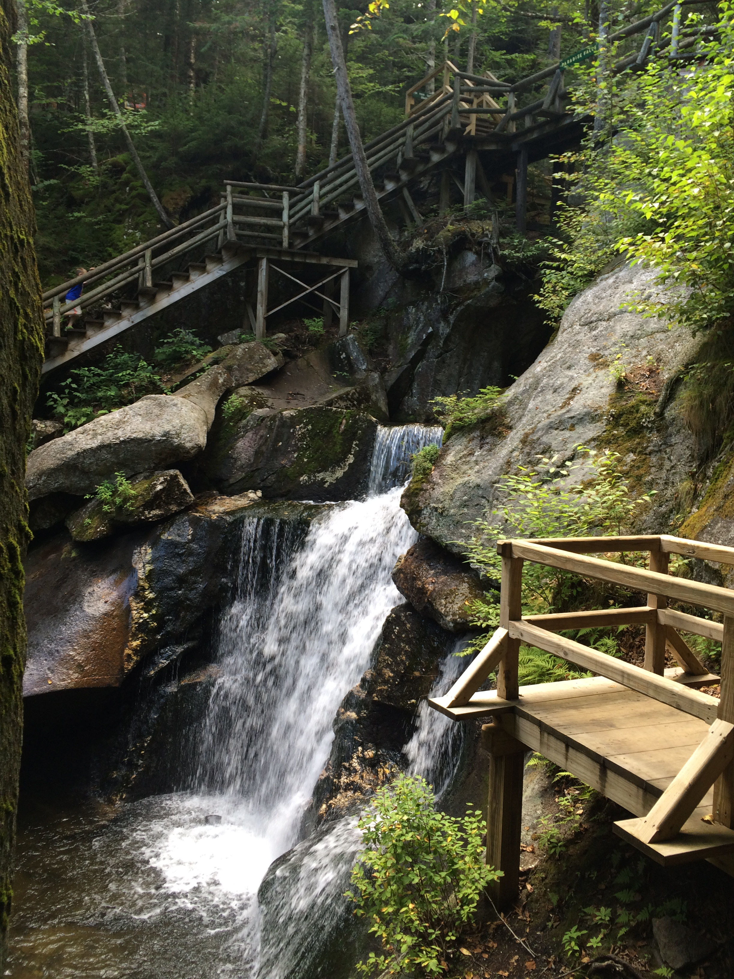 Paradise Falls with viewing platform in Lost River Gorge in Woodstock, New Hampshire